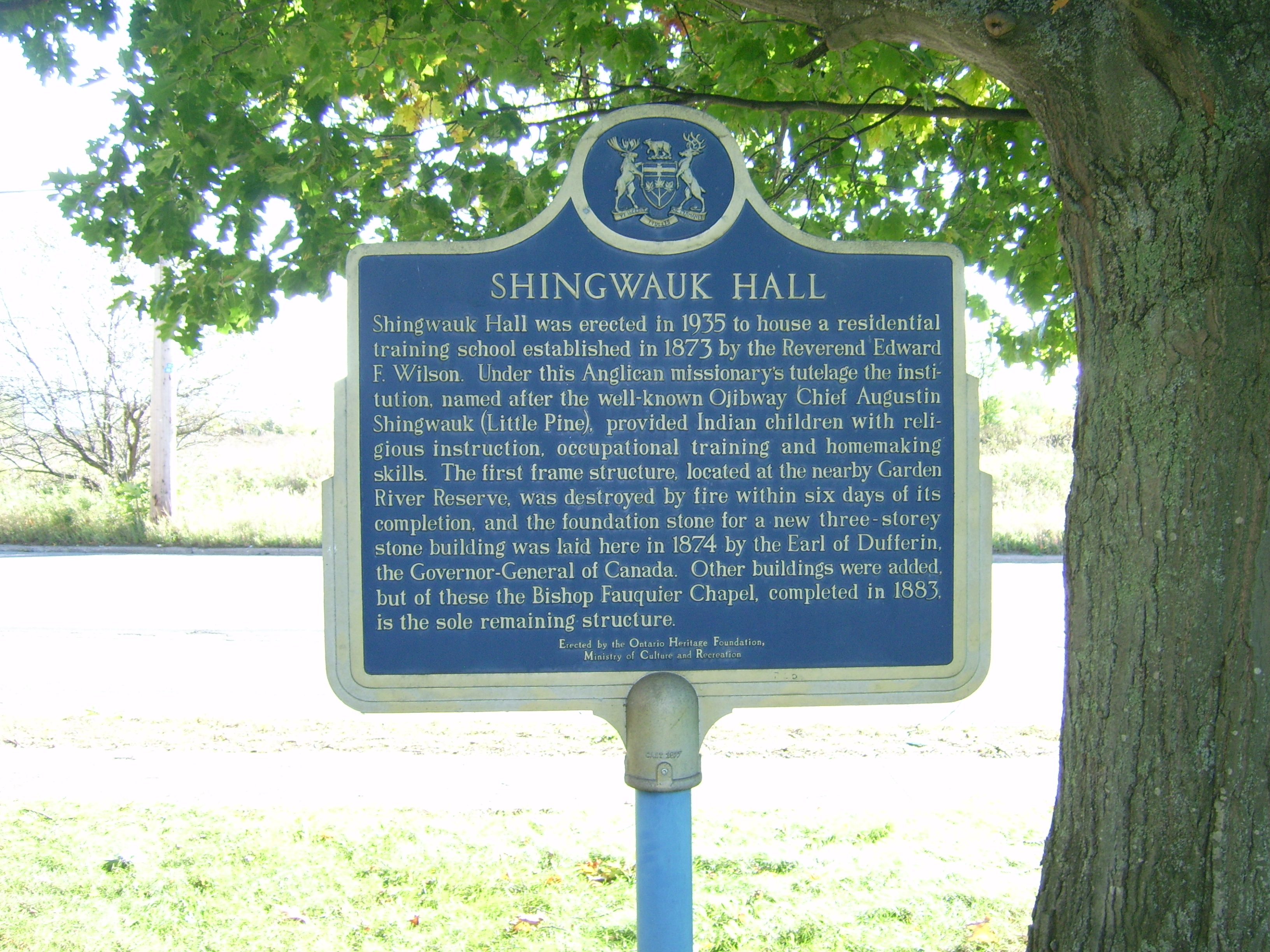 Bishop Fauquier Memorial Chapel, Sault Ste. Marie, Ontario. SHINGWAUK HALL Shingwauk Hall was erected in 1935 to house a residential training school established in 1873 by the Reverend Edward F. Wilson. Under this Anglican missionary's tutelage the institution, named after the well-known Ojibway Chief Augustin Shingwauk (Little Pine), provided Indian children with religious instruction, occupational training and homemaking skills. The first frame structure, located at the nearby Garden River Reserve, was destroyed by fire within six days of its completion, and the foundation stone for a new three-storey stone building was laid here in 1874 by the Earl of Dufferin, the Governor-General of Canada. Other buildings were added, but of these the Bishop Fauquier Chapel, completed in 1883, is the sole remaining structure. Erected by the Ontario Heritage Foundation Ministry of Culture and Recreation